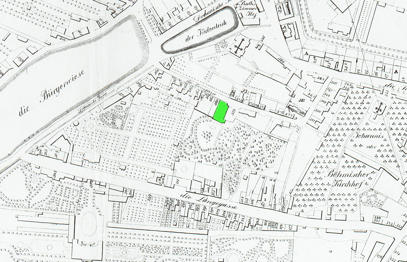 “Villa Cara” in Dresden on a map from about 1830. North is at the right hand side.